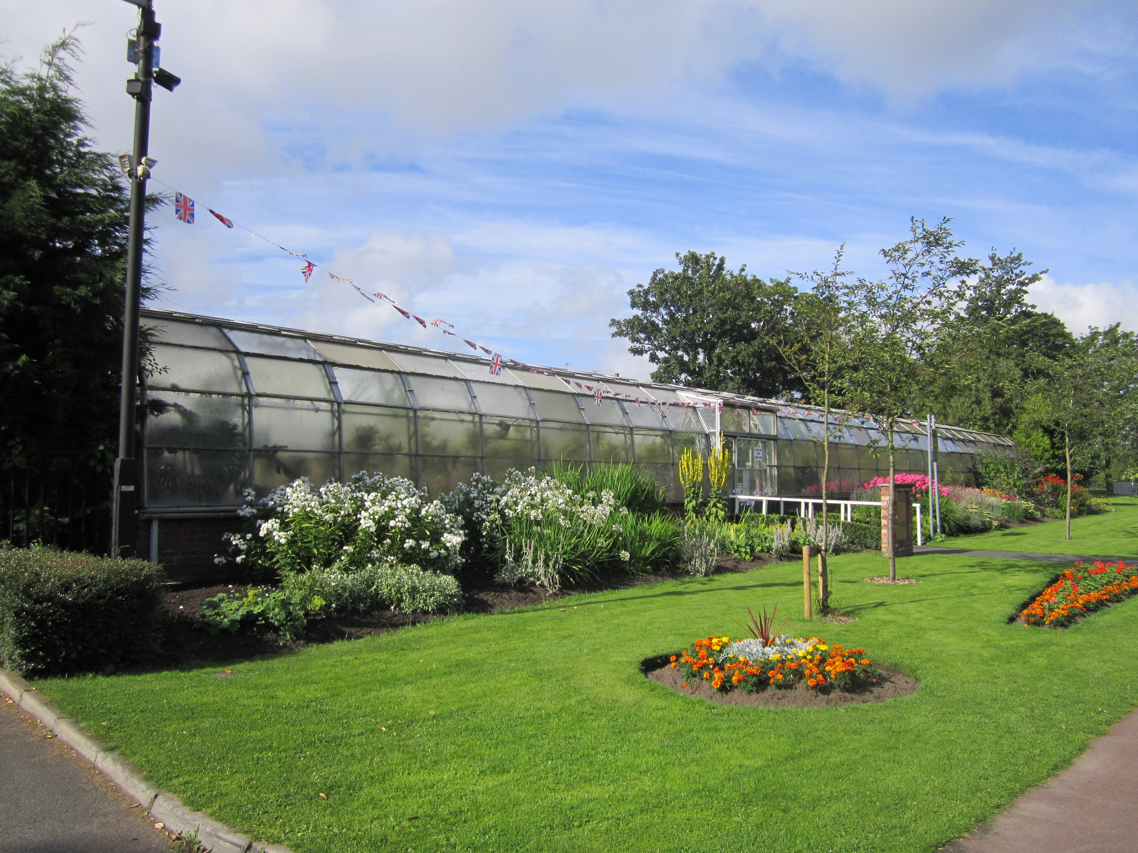 Photo taken at Victoria Park, Widnes, Cheshire, England.